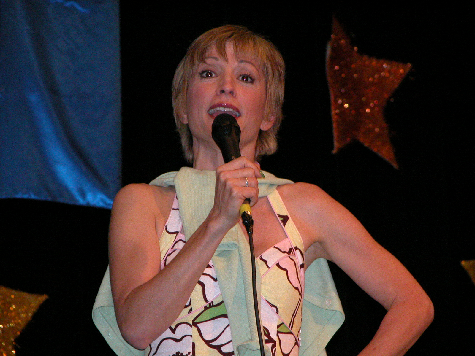 Nana Visitor at STICCon XVIII in Bellaria, Italy, on May 30, 2004.